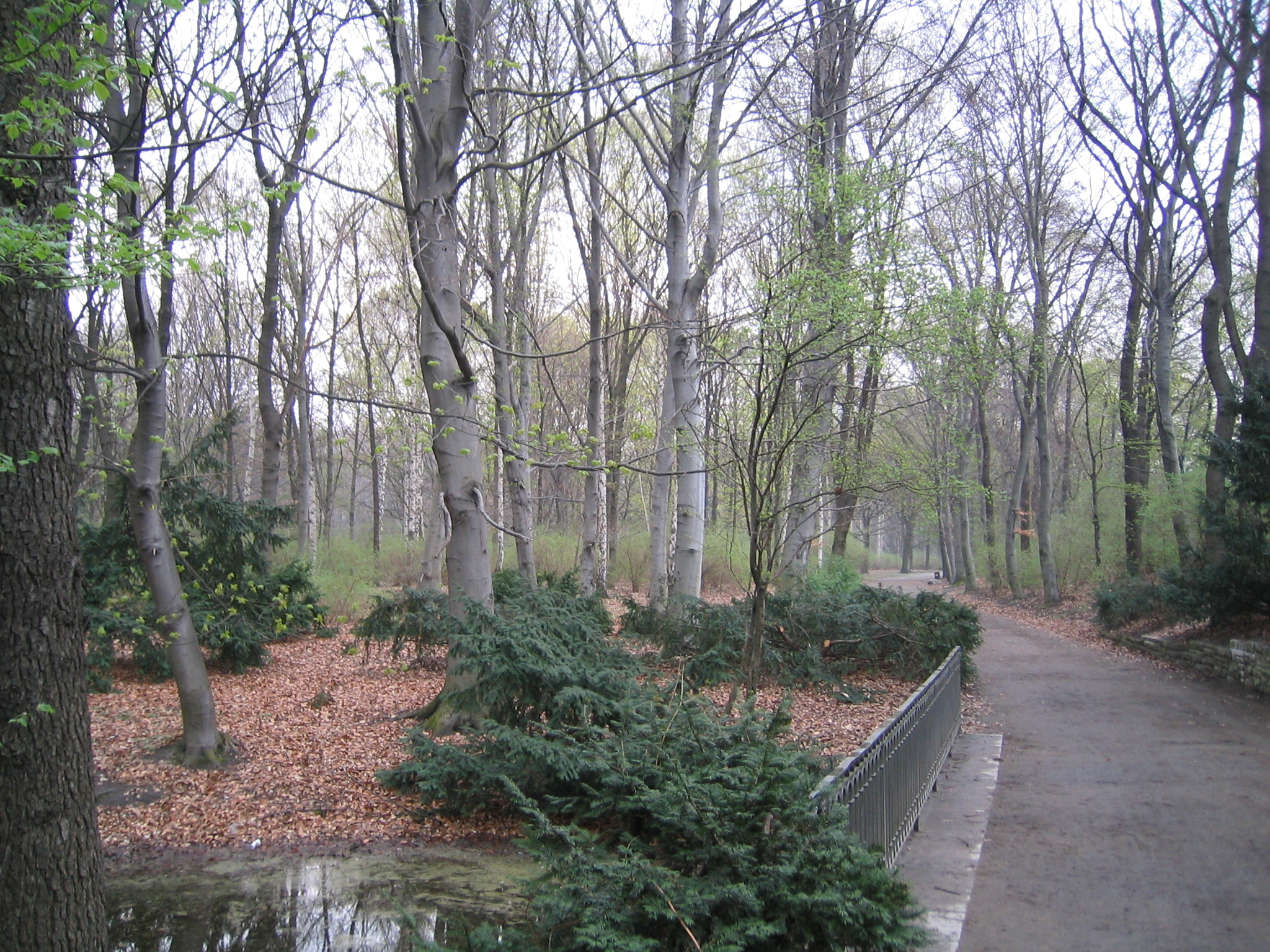 Woodland view in the Tiergarten, Berlin, Germany